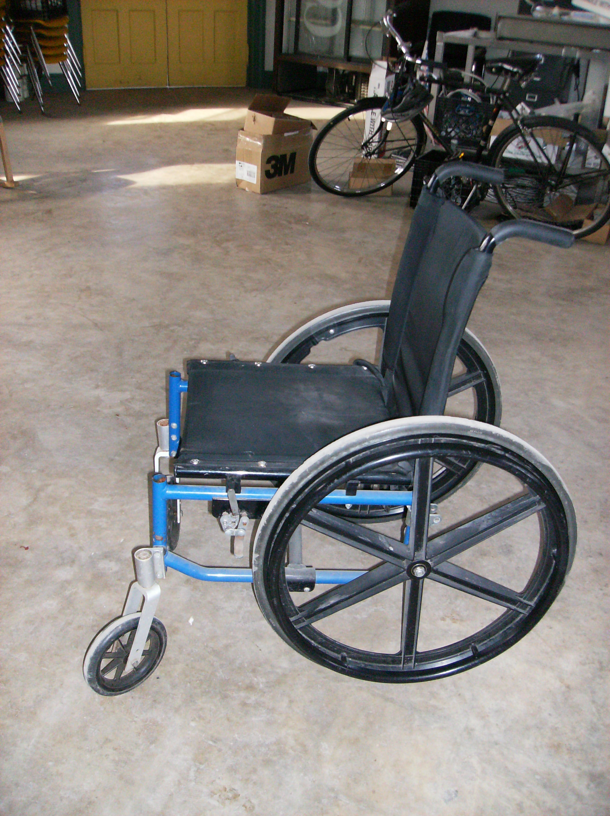 Modern wheelchair inside Our Community Place in Harrisonburg, Virginia.